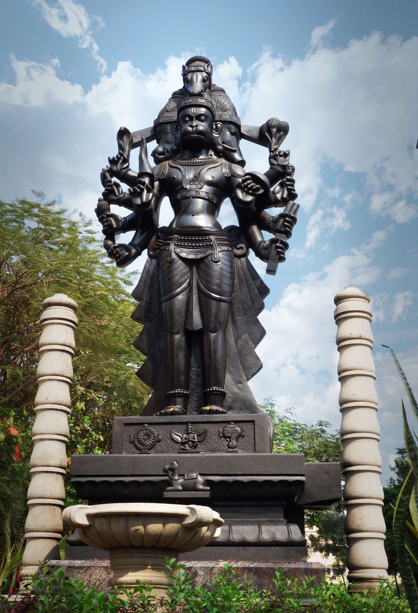 500px provided description: This fantastic statue of Shree Hanumanji (Maruthi) is situated at Shirdi village in Maharashtra. This is one of the few idols of the Hanumanji with five faces. In addition to the face of Hanuman, the idol has four other faces Hayagriva, Narasimha, Garuda and Varaha. This idol has ten arms, wielding various weapons and items. The five faces signifies five directions - South, North, East, West and Upward. [#religion ,#temple ,#monument ,#statue ,#sculpture ,#ancient ,#shrine ,#historical ,#heritage ,#ancient civilization ,#bas relief ,#Shirdi ,#Maruthi ,#Panchamukhi ,#Anjaneya ,#Temple sculpture ,#Shirdi Sai Baba ,#Hanumanb ,#Five faced Hanuman ,#Panchamukhi Hanuman ,#Shirdi Maharashtra ,#Hindi idol ,#Hindu Monkey God]